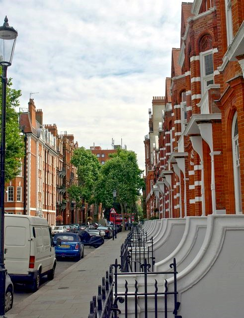 Earls Court Square. Similar houses to 1233980, on the south side of the square, dating from the 1870s.